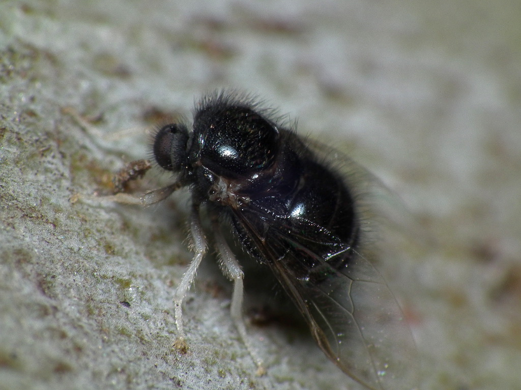 Pterodontia sp. fly in Brisbane, Queensland, Australia